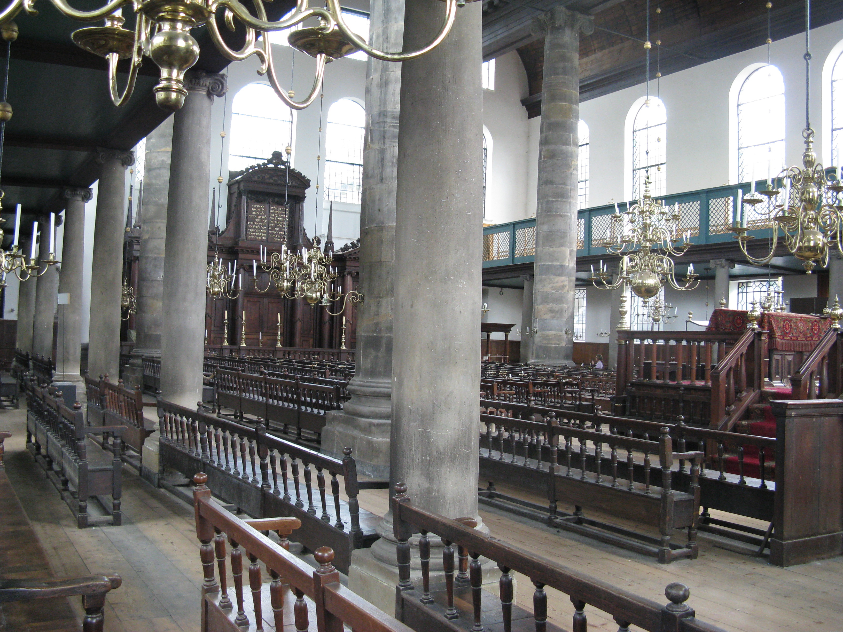 Portuguese Synagogue in Amsterdam, Netherlands.